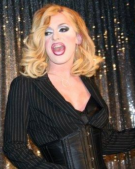 Pandora Boxx performing